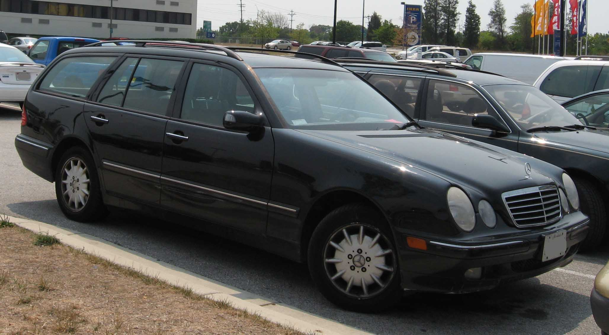 2000-2003 Mercedes-Benz E-Class photographed in USA.